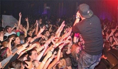 subliminal israeli raper in a show